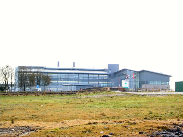 Health and Safety Laboratory. This recently-completed (mid-2005) purpose-built complex on Harpur Hill stands in front of the Research facility for the University of Sheffield. It is the Health and Safety Executive's laboratory.